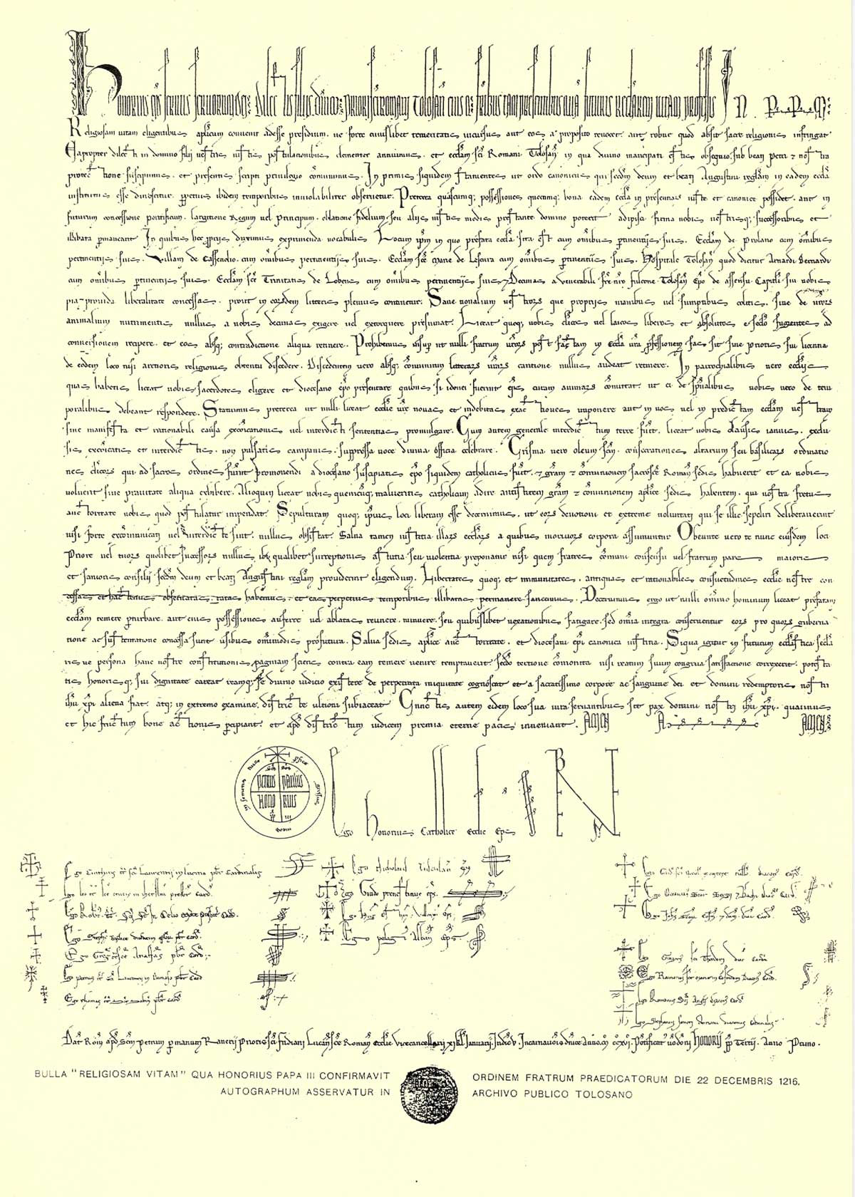 Bull Religiosam vitam, confirming the Dominican Order